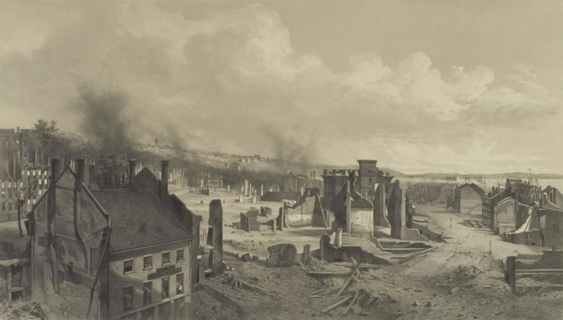 Ruins of the Great Fire at Portland, Me. July 4th & 5th, 1866. -- View from Corner of Middle & Free Sts.